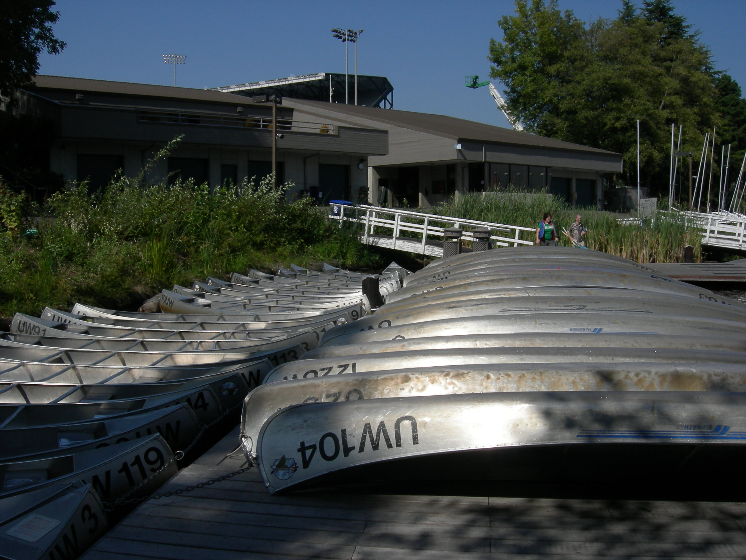 Canoes, University of Washington Waterfront Activities Center, Union Bay.